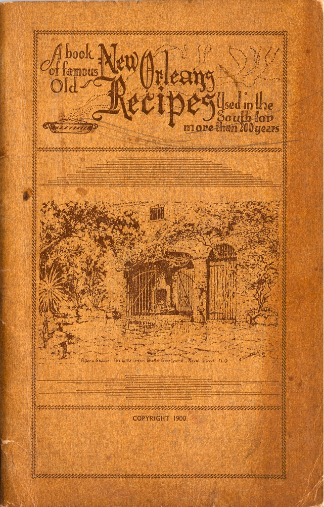 Cover of one of the earliest cookbooks to contain a published recipe for Chicken à la King.